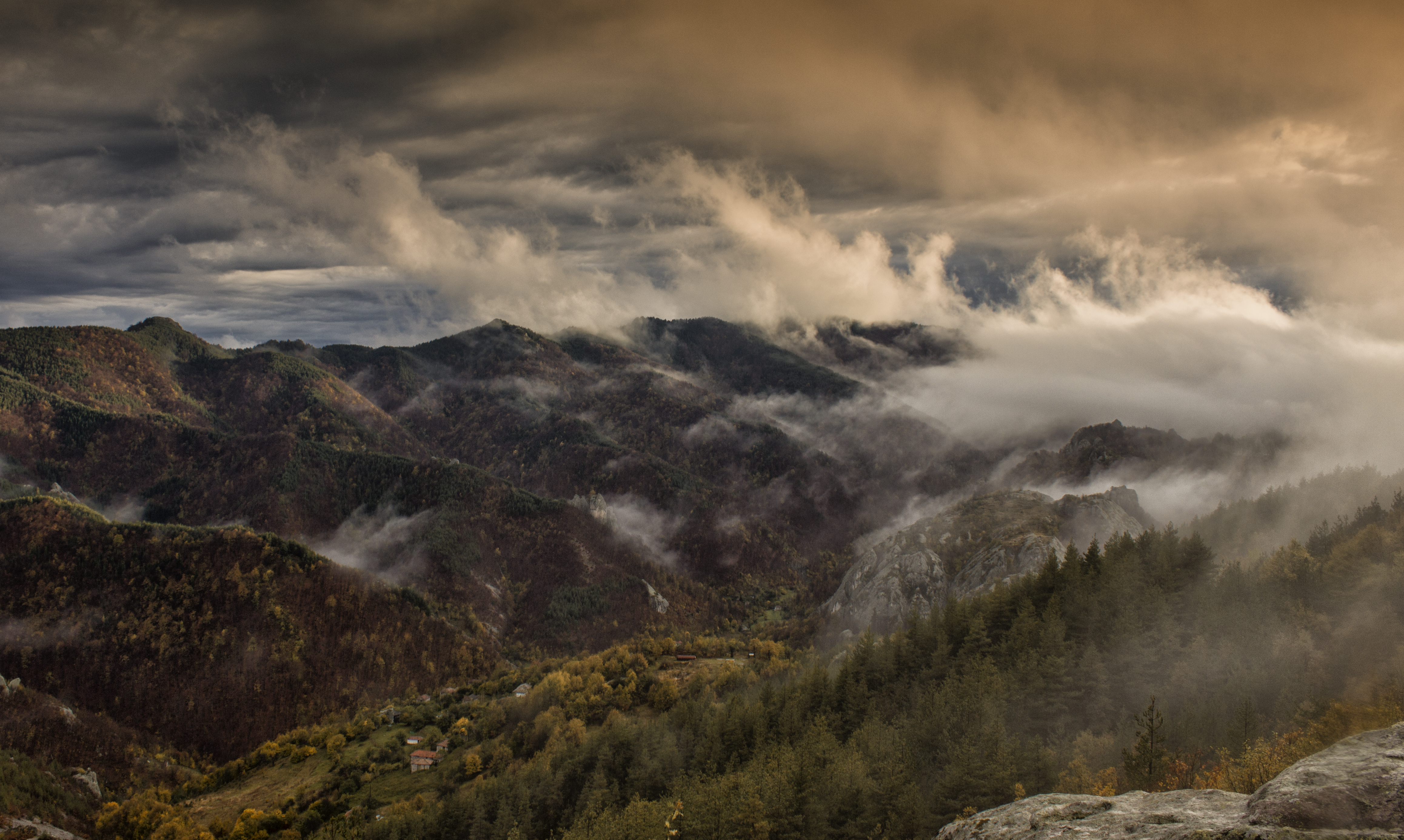 View from Belintash, Rhodope Mountain, Bulgaria